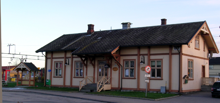 Skarnes railway station, Hedmark, Norway. Built 1862. Architects: Heinrich Ernst Schirmer and Wilhelm von Hanno.